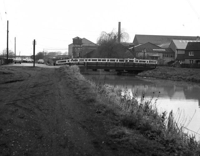 Colthrop Swing Bridge and Lock No 91, Kennet and Avon Navigation Still at the time of the photograph unnavigable, this part of the waterway passes through industrial surroundings at Colthrop